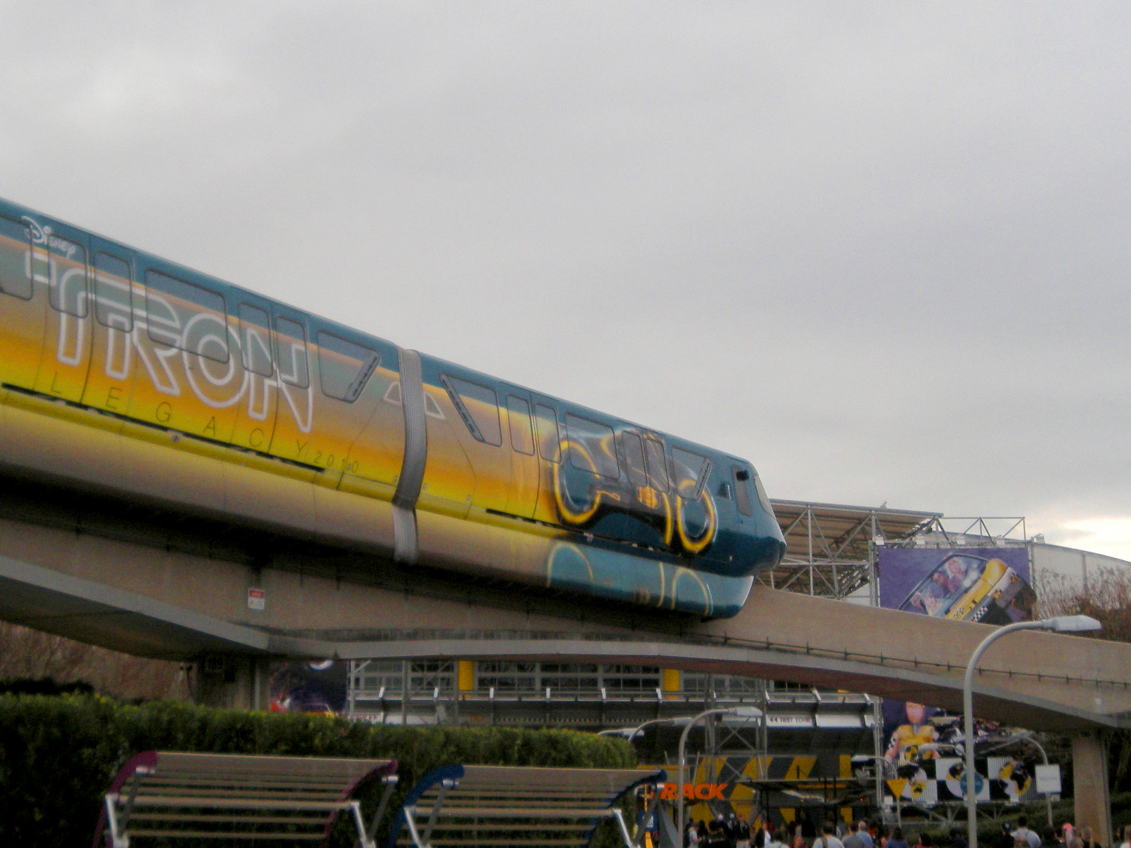 Tron Legacy monorail train at Walt Disney World passing through Epcot by Test Track